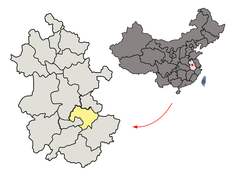 Location of Wuhu Prefecture (yellow) within Anhui Province of China Map drawn in december 2007 using various sources, mainly : Anhui Province administrative regions GIS data: 1:1M, County level, 1990 Anhui Counties map from